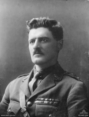 Studio portrait of Lieutenant Colonel Henry William "Harry" Murray VC, CMG, DSO & Bar, DCM; an Australian recipient of the Victoria Cross in World War I